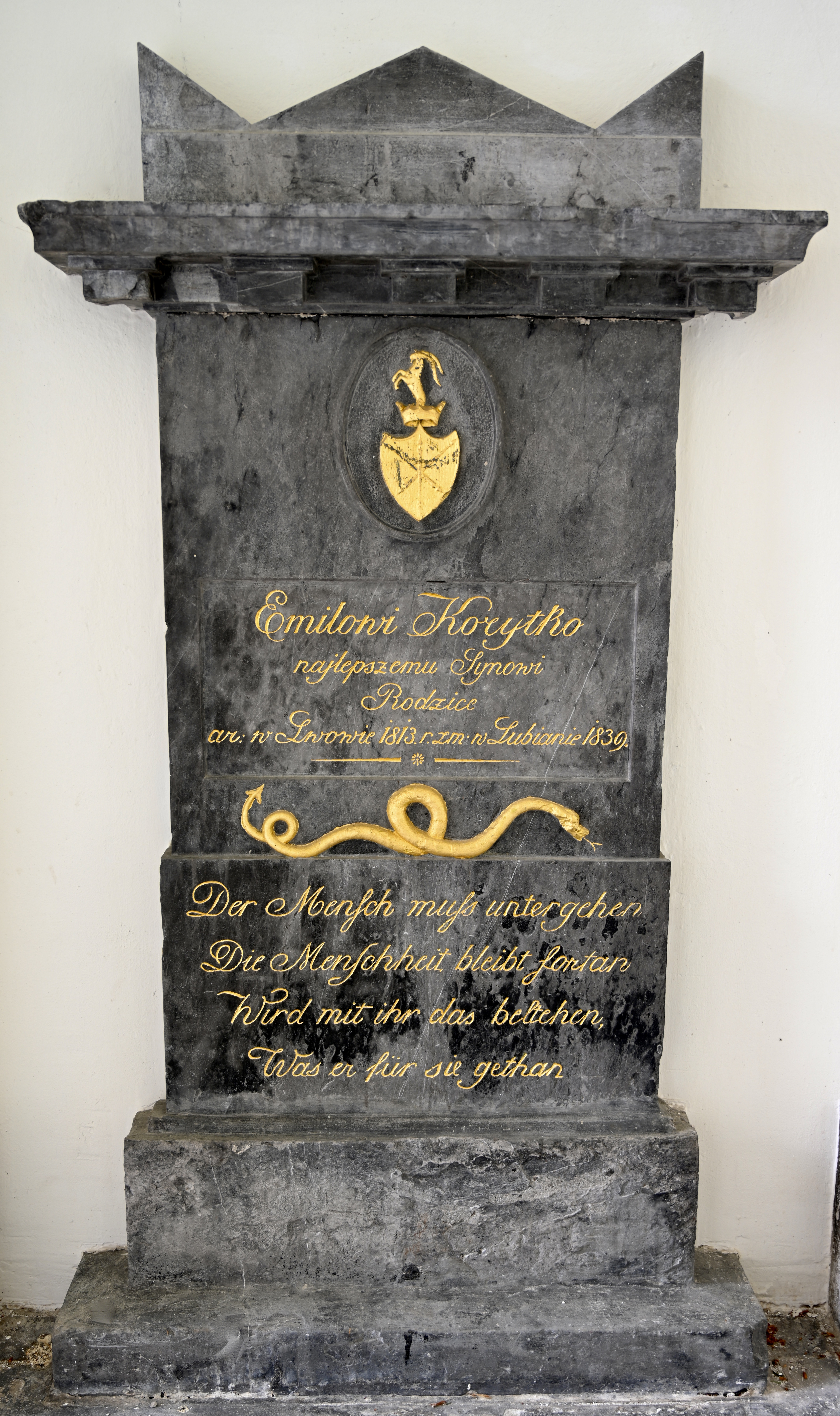 Tombstone of Emil Korytko, Polish ethnographer and philologist at Navje in Ljubljana.